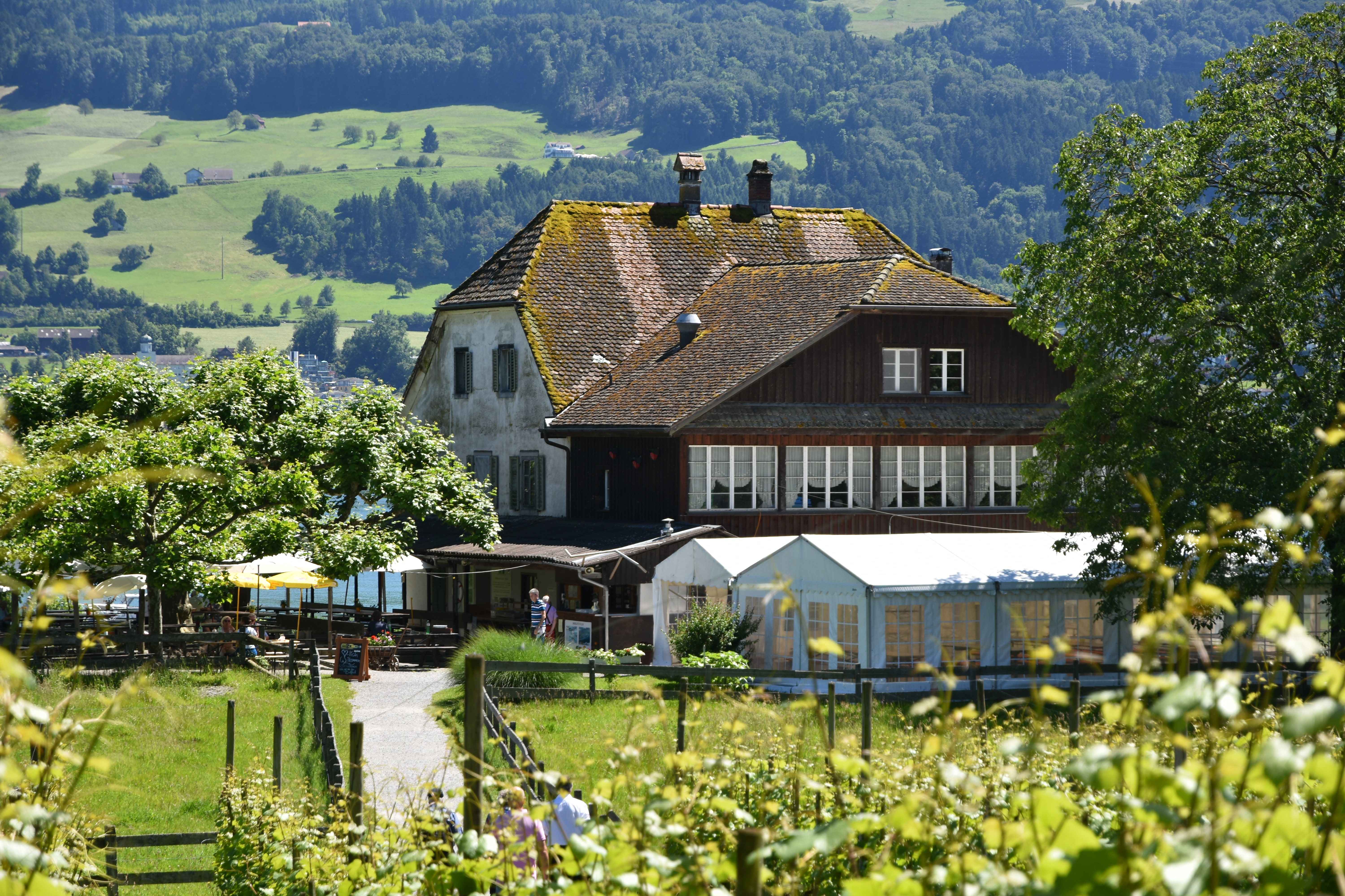 Ufenau island and Frauenwinkel protected area on Zürichsee in Switzerland